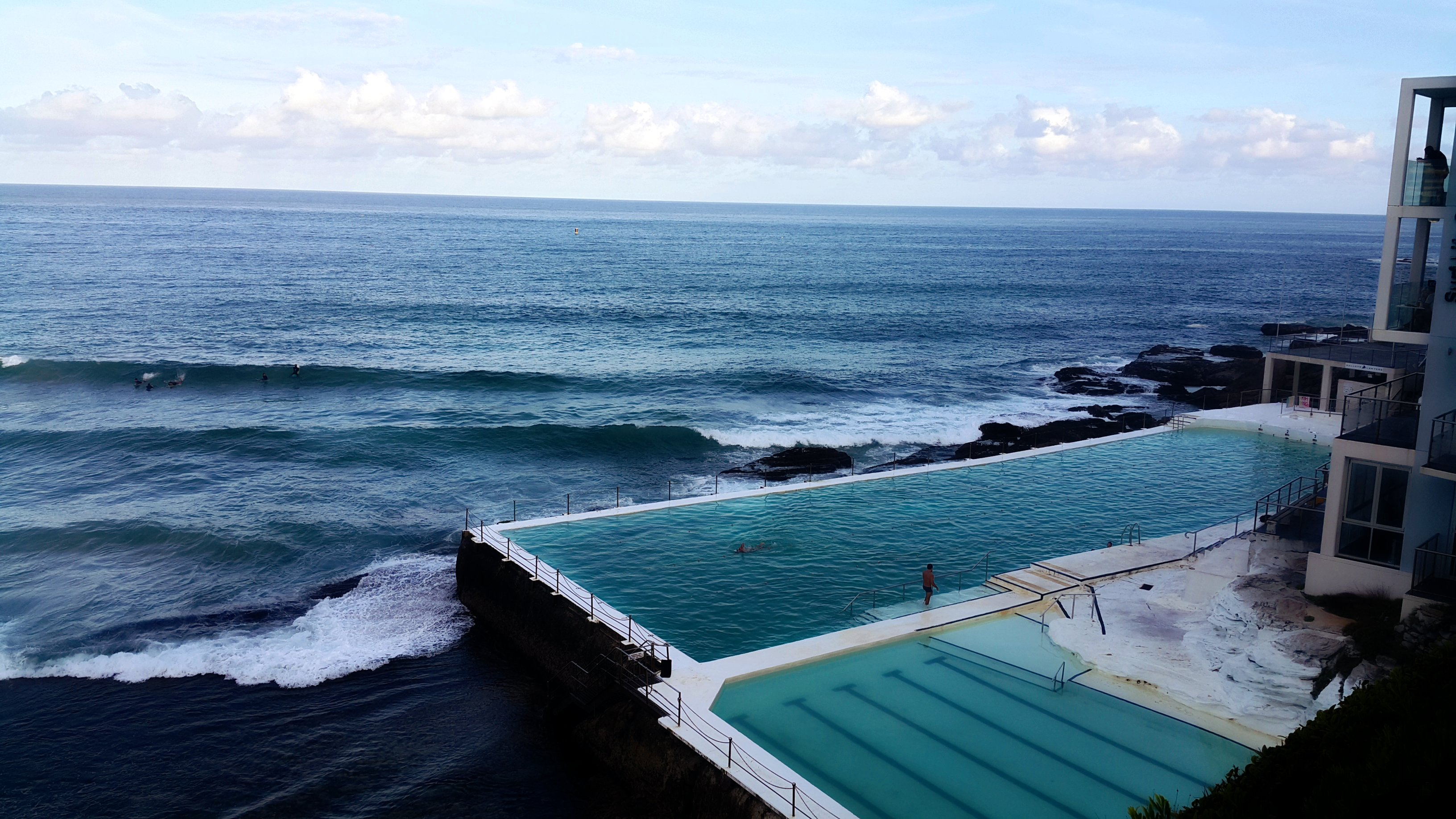 Bondi Beach NSW 2026, Australia